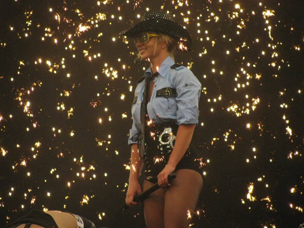 Britney's second show in O2 London - June 4th 2009.